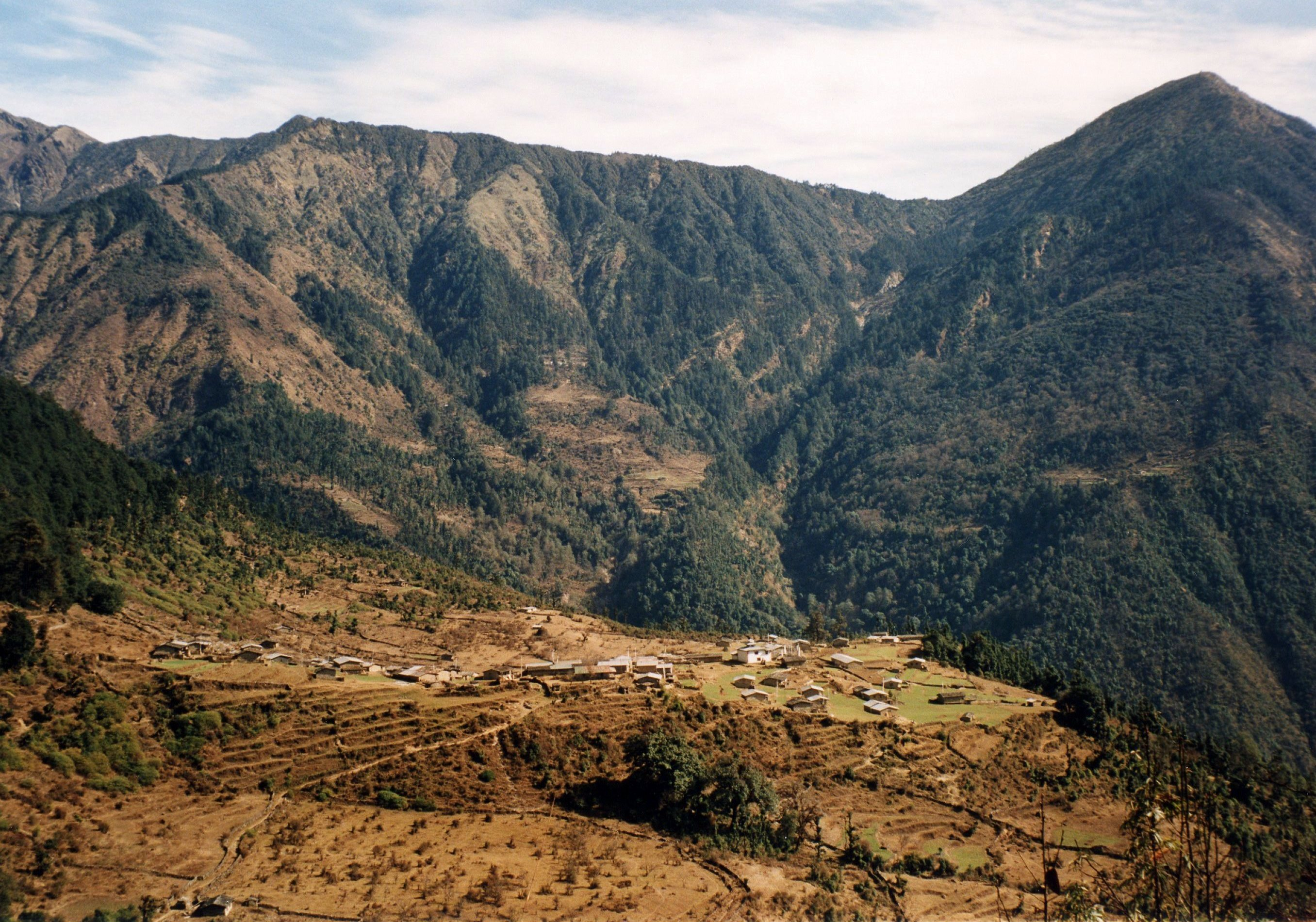 Village of Melamchigaon (2591 m) on Helambu trek, Nepal